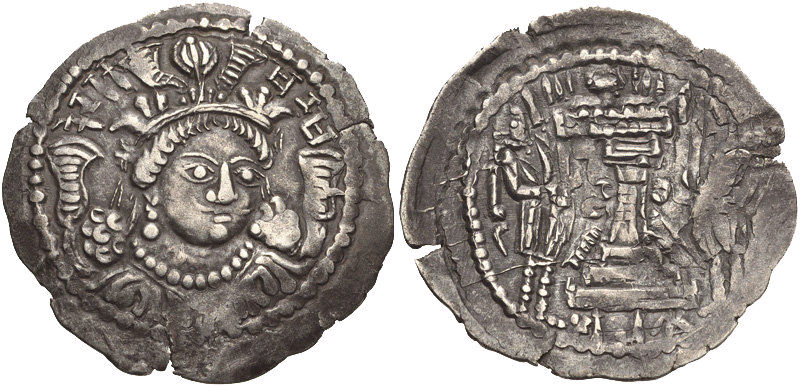 Kidarites ruler Kidara circa 350-385 CE. AR Drachm (28mm, 3.97 g, 3h). Crowned bust facing slightly right / Fire altar with ribbons and attendants; in flames, head right; Brahmi “Sulakha” in exergue.